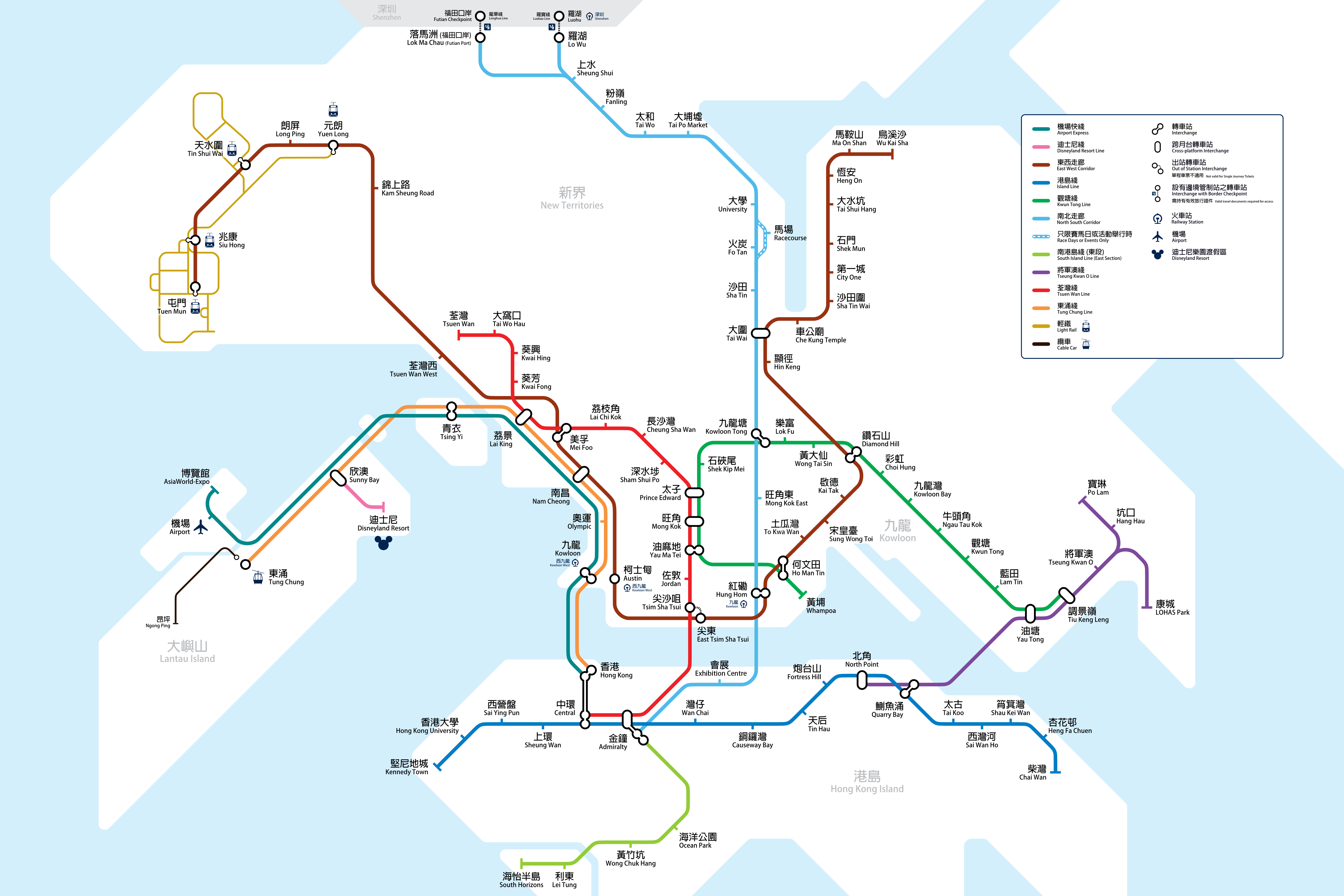 This map is not maintained as many of the proposed projects have been completed. Please click the thumbnail on the right from now on.